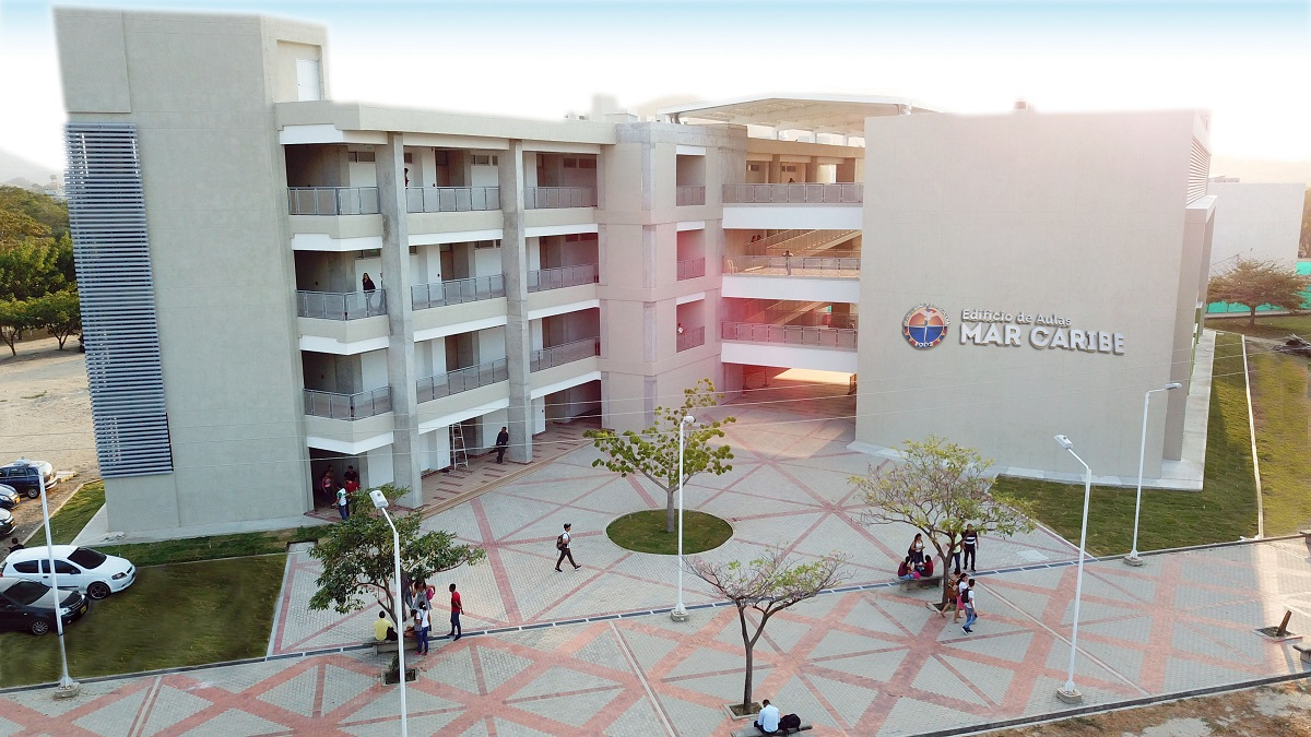 DCIM\101MEDIA\DJI_0252.JPG